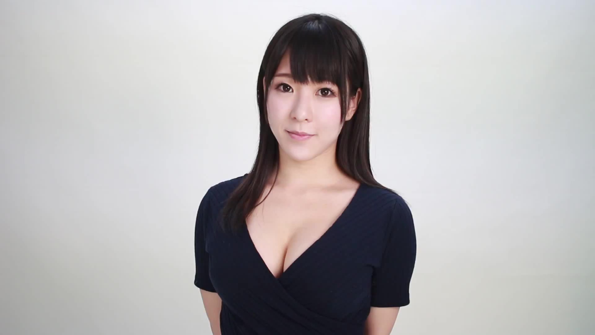 Runa Amemiya.